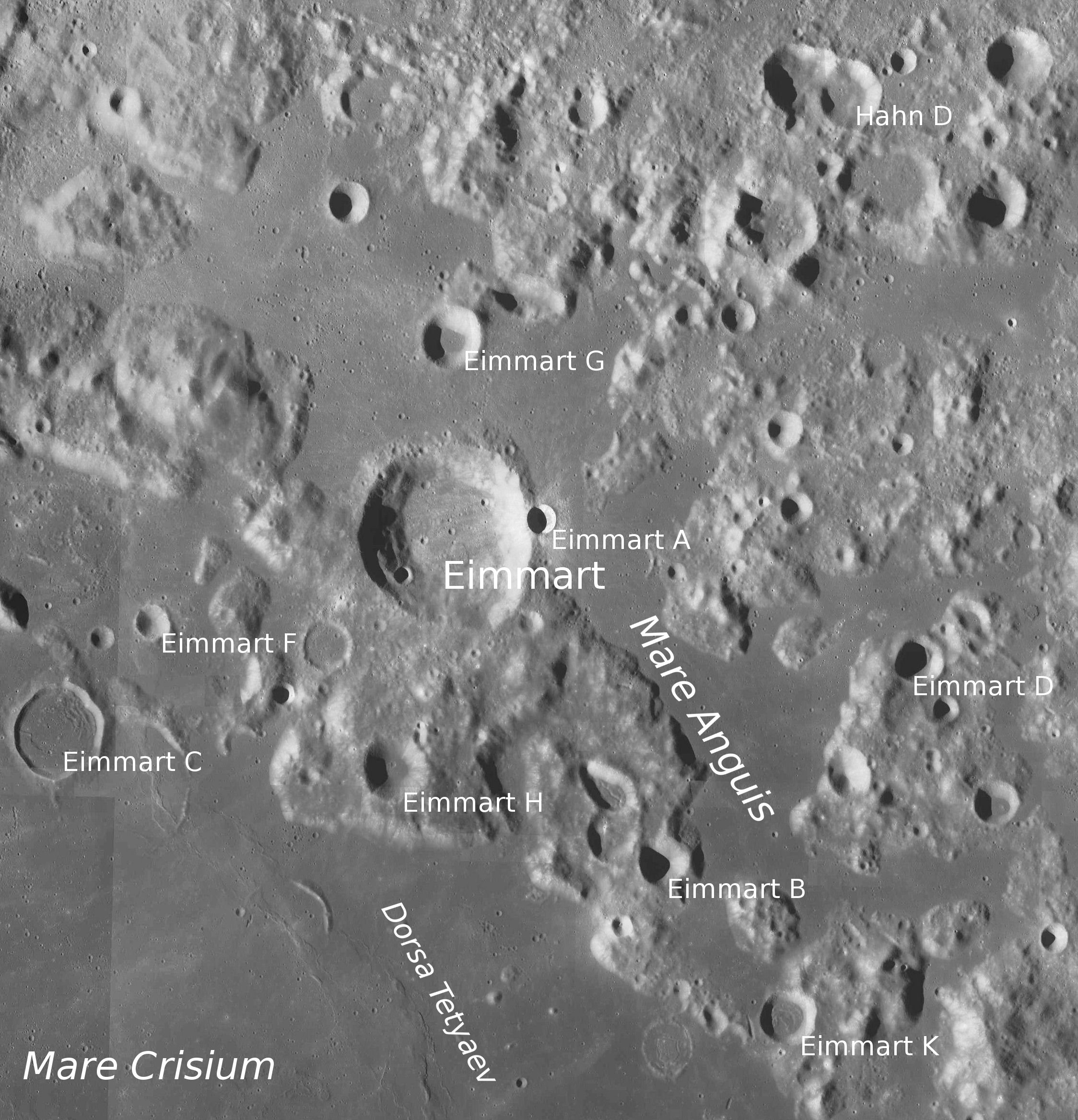 Mare Anguis with crater Eimmart (detail of LROC - WAC global moon mosaic)